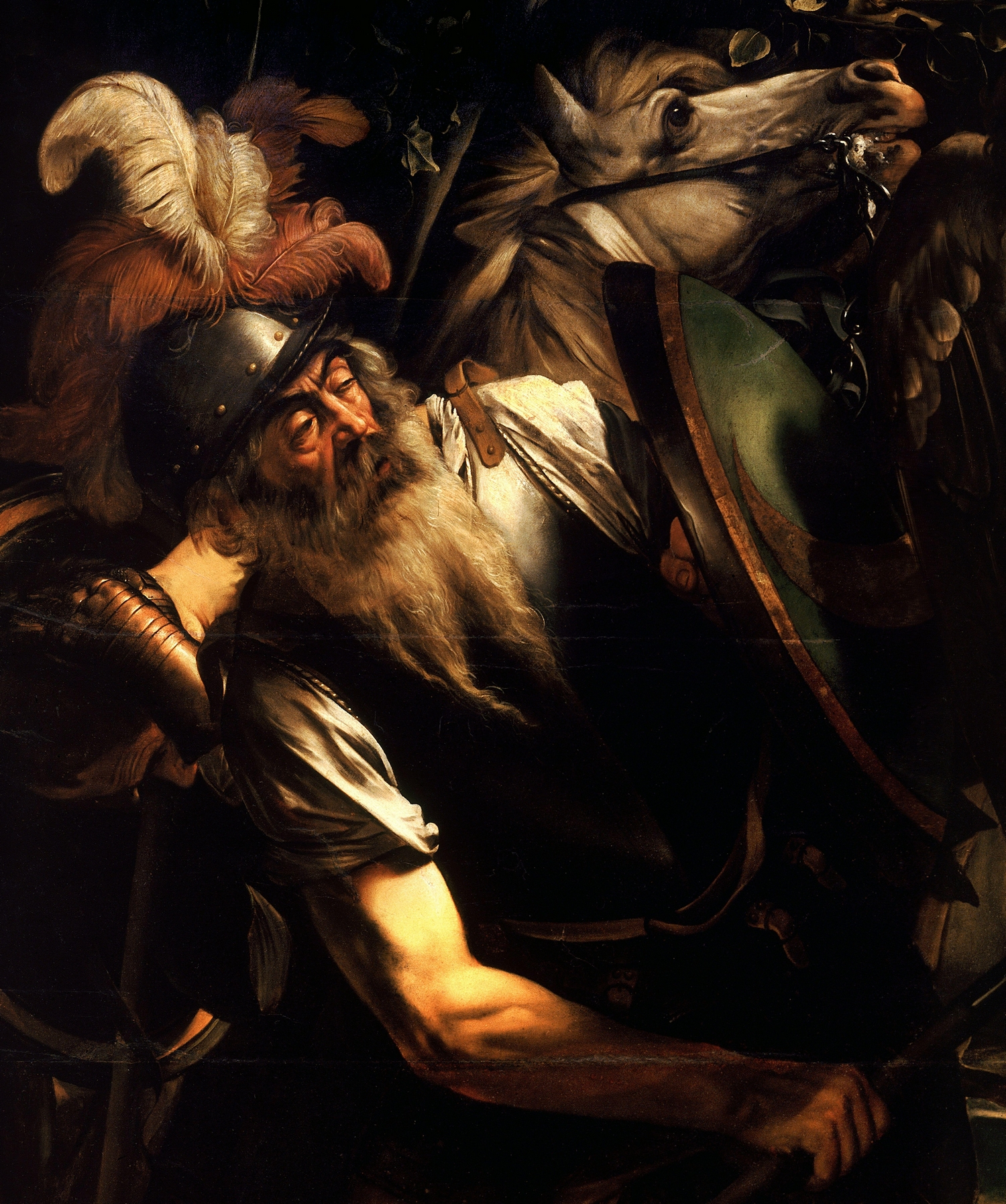 Detail of "Conversion of St Paul" painting by Caravaggio (Odelaschi version)